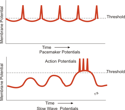 Diagram illustrating slow wave potentials and pacemaker potentials in smooth muscle